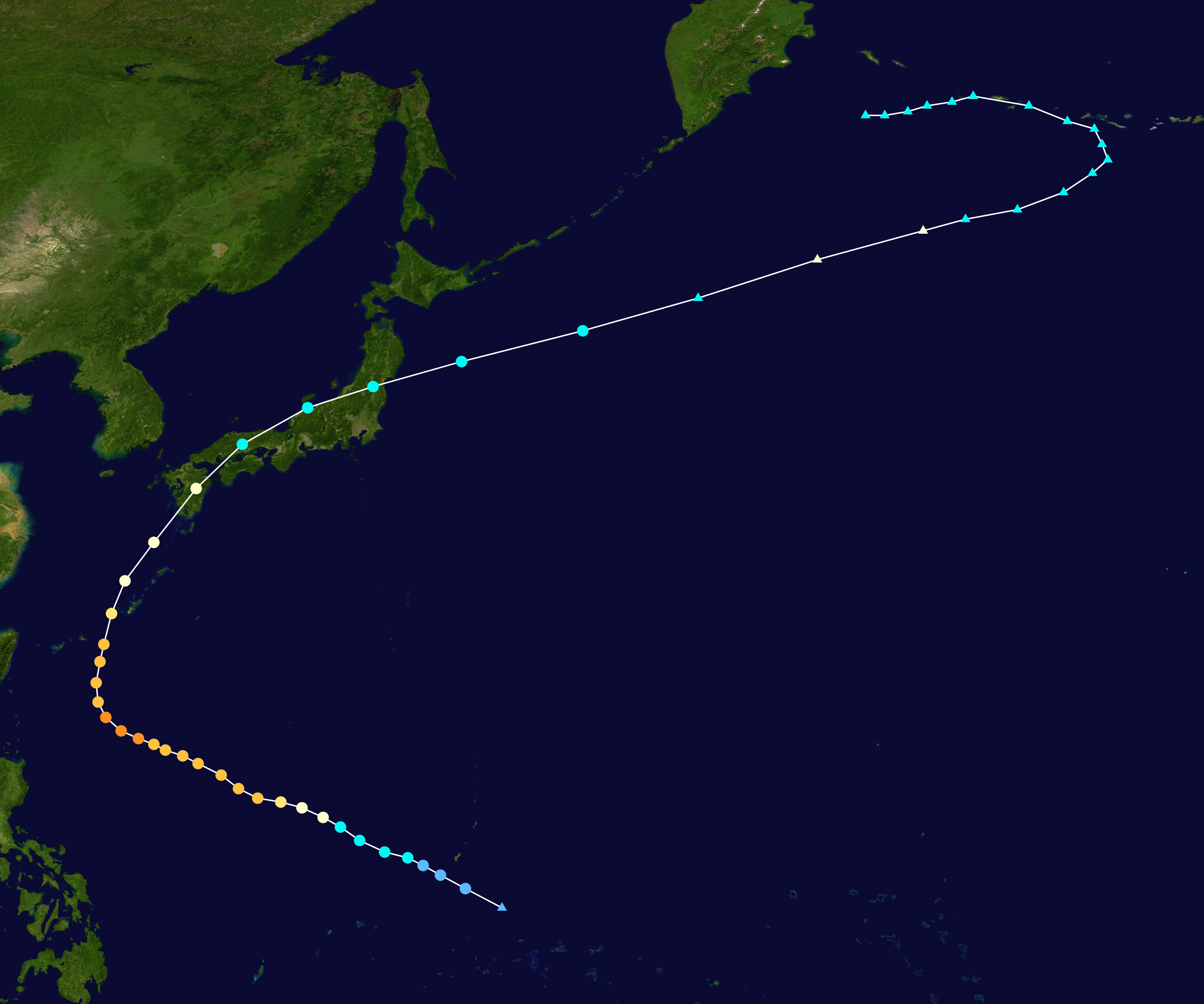 Typhoon Ruth (1951) track. Uses the color scheme from the Saffir-Simpson Hurricane Scale.